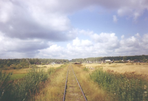 Maksimovka, Gryazovetsky District, Vologda Oblast